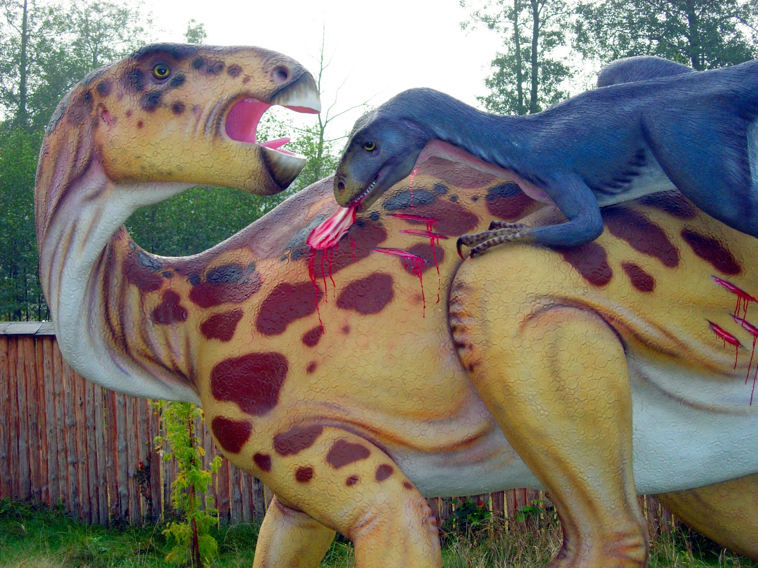 Models of dinosaurs in Bałtów Jurassic Park in Bałtów, Poland